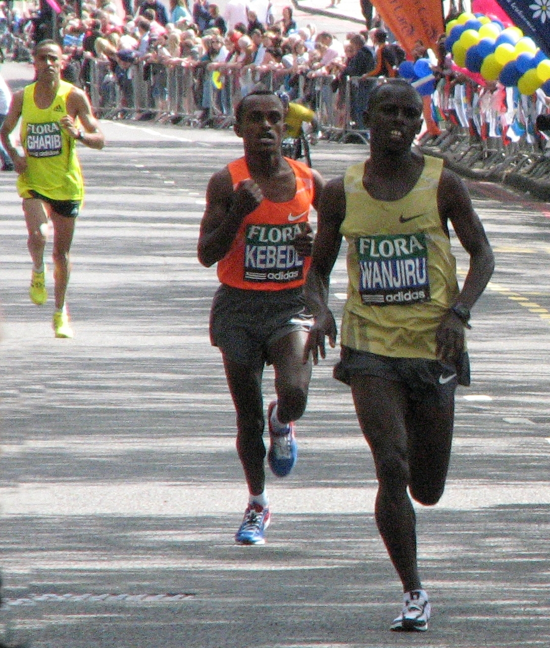 Samuel Wanjiru leads Tsegay Kebede and Jaouad Gharib in the London Marathon 2009. This is at Mile 24 and a half, along Mid Temple right by Temple Place. Samuel Wanjiru is here a few seconds short of 1:56:00, and went on to finish in a new course record of 2:05:09. They finished in this order, and all three set personal best times.